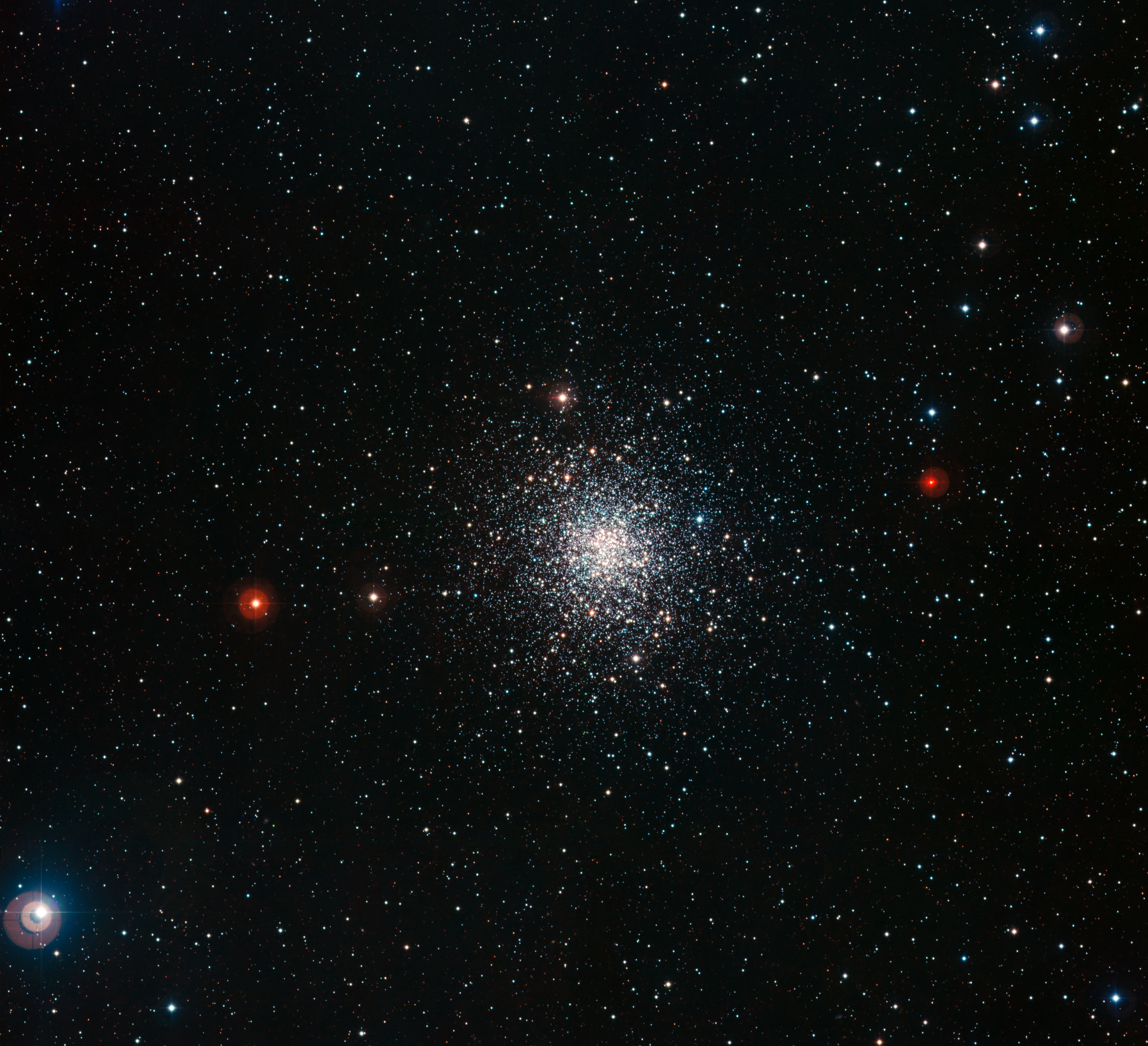 The globular cluster Messier 107, also known as NGC 6171, is located about 21 000 light-years away in the constellation of Ophiuchus. Messier 107 is about 13 arcminutes across, which corresponds to about 80 light-years at its distance. As is typical of globular clusters, a population of thousands of old stars in Messier 107 is densely concentrated into a volume that is only about twenty times the distance between our Sun and its nearest stellar neighbour, Alpha Centauri, across. This image was created from exposures taken through blue, green and near-infrared filters, using the Wide Field Imager (WFI) on the MPG/ESO 2.2-metre telescope at La Silla Observatory, Chile.